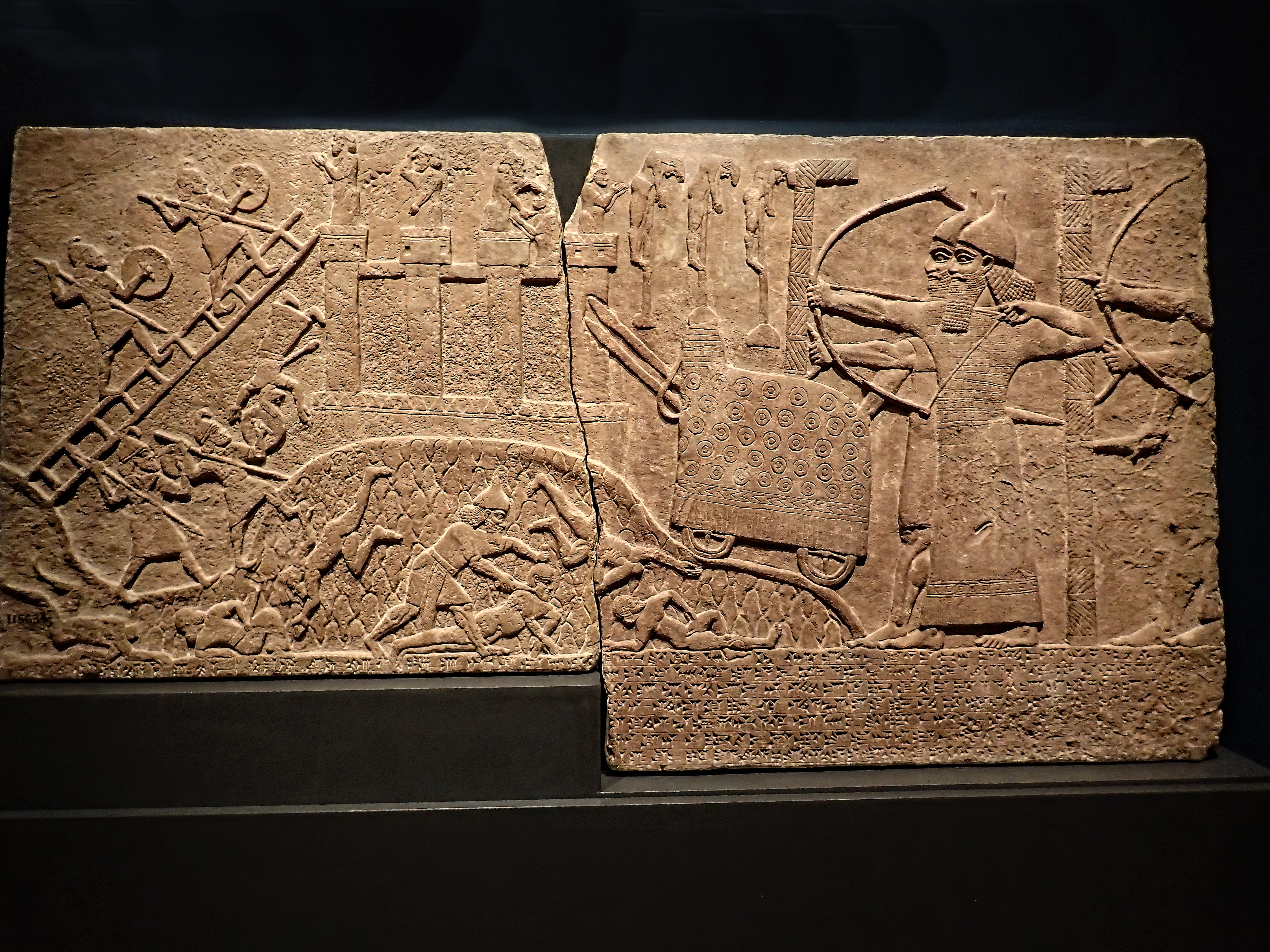 Assyrian relief of attack on an enemy town during the reign of Tiglath-Pileser III 720-737 BCE from his palace at Kalhu (Nimrud), gypsum, now in the collections of the British Museum on loan to the Getty Villa